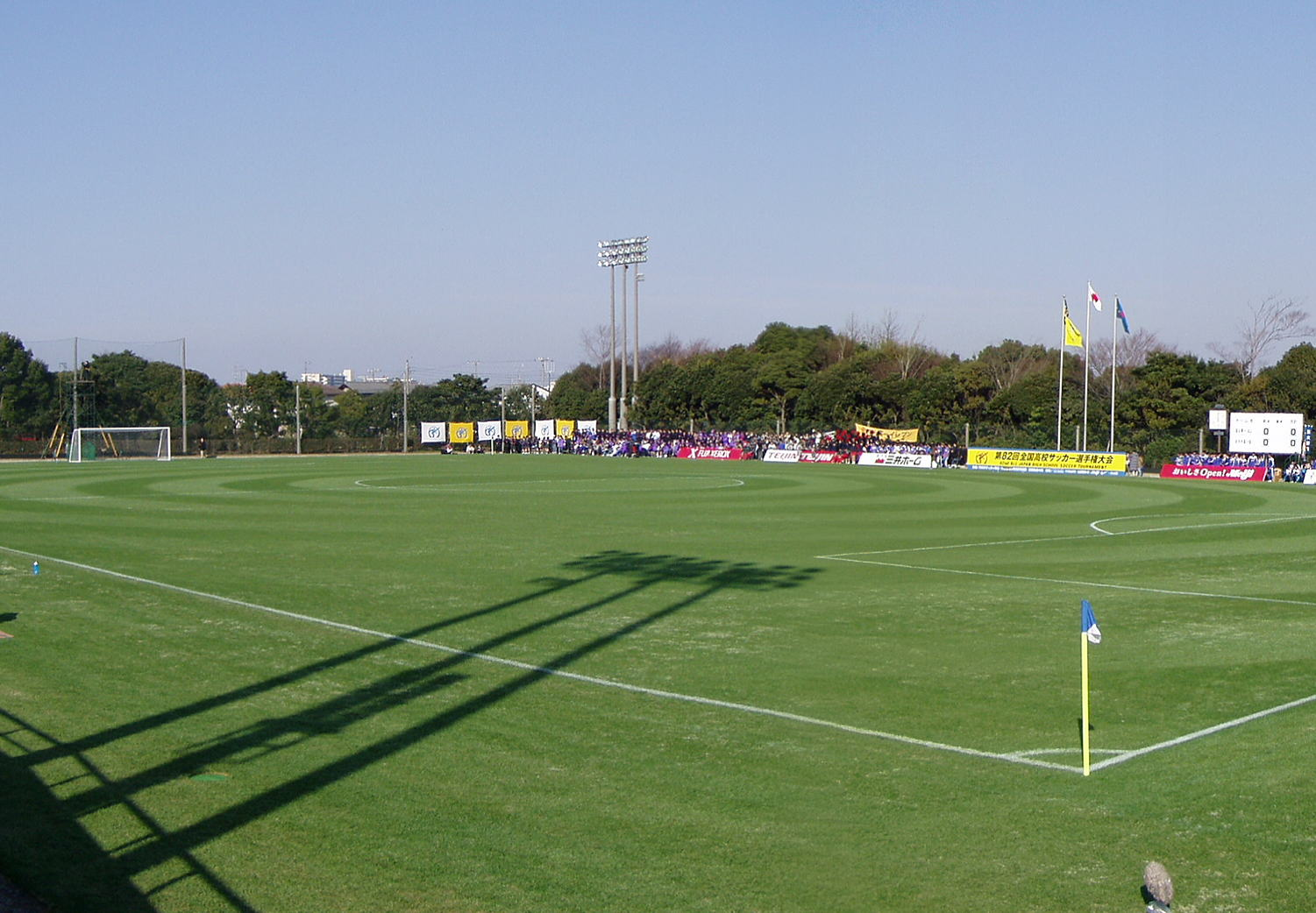 Akitsupark football-field